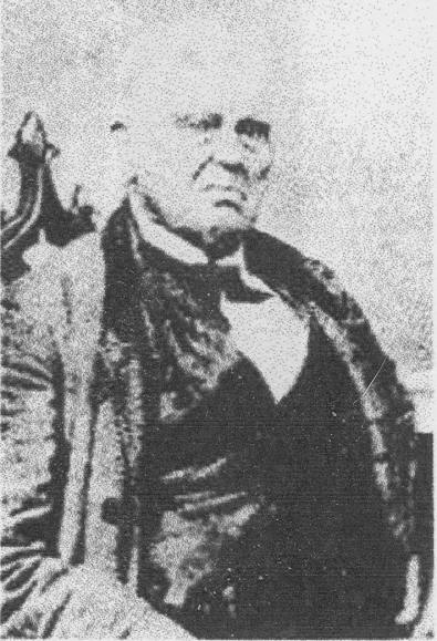 Property of user. From family archives. User is related to individual in photo.